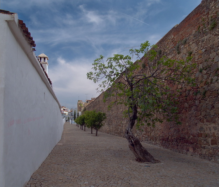 Portalegre city walls